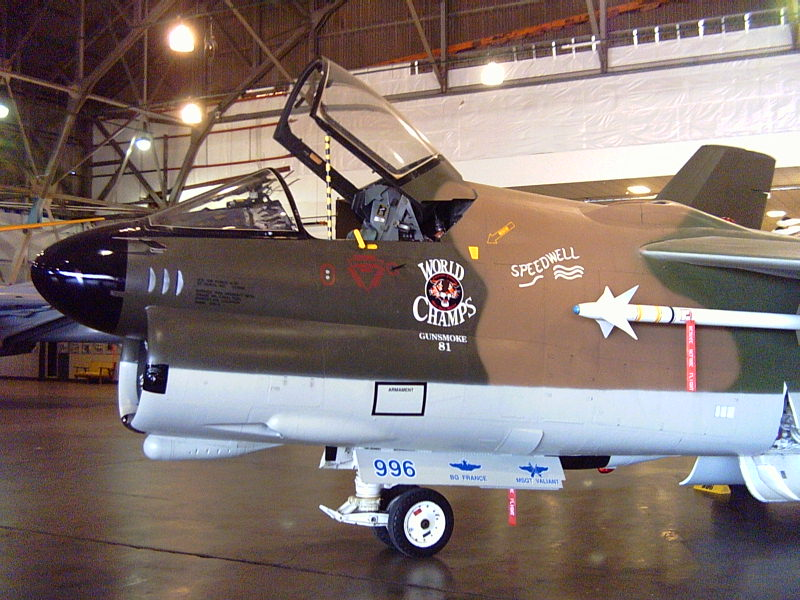 An LTV A-7D Corsair II (s/n 73-0996) at the "Wings over the Rockies air & Space Museum in Denver, Colorado (USA). This aircraft was last operated by the 140th Wing, Colorado Air National Guard, nicknamed "Speedwell".